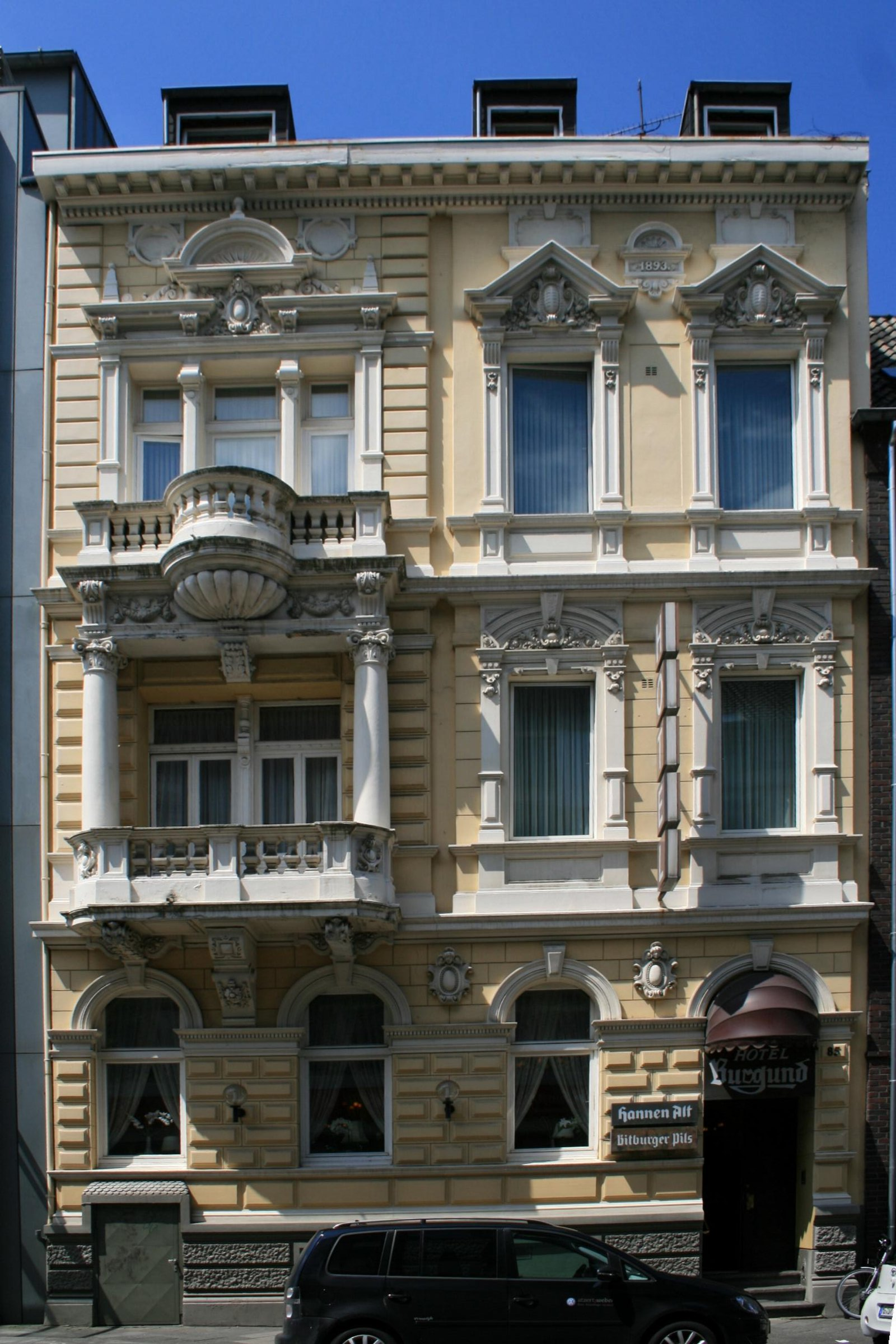 Cultural heritage monument No. K 027 in Mönchengladbach